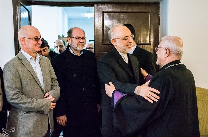 Sepuh Sargsyan, archbishop of the Armenian Diocese of Tehran visit AliAkbar Salehi head of Atomic Energy Organization of Iran at Tehran Prelacy